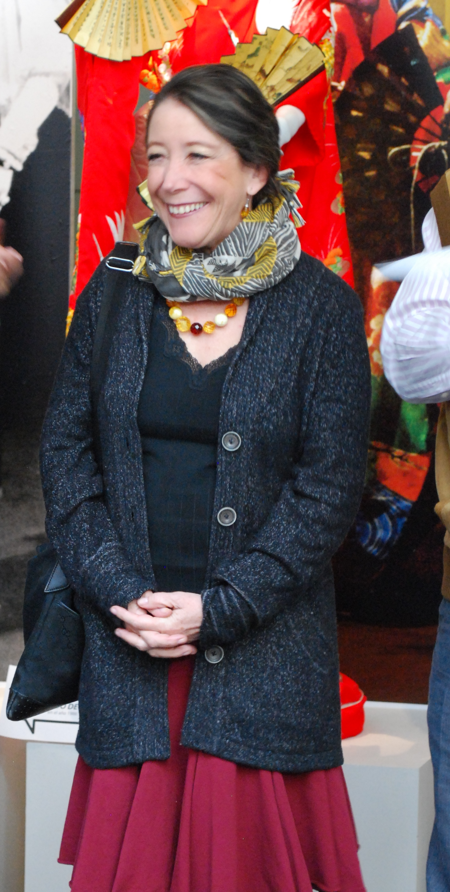 Daughter Emoe de la Parra at the homage to Yolanda Vargas Duché at the Museo de Arte Popular in Mexico City